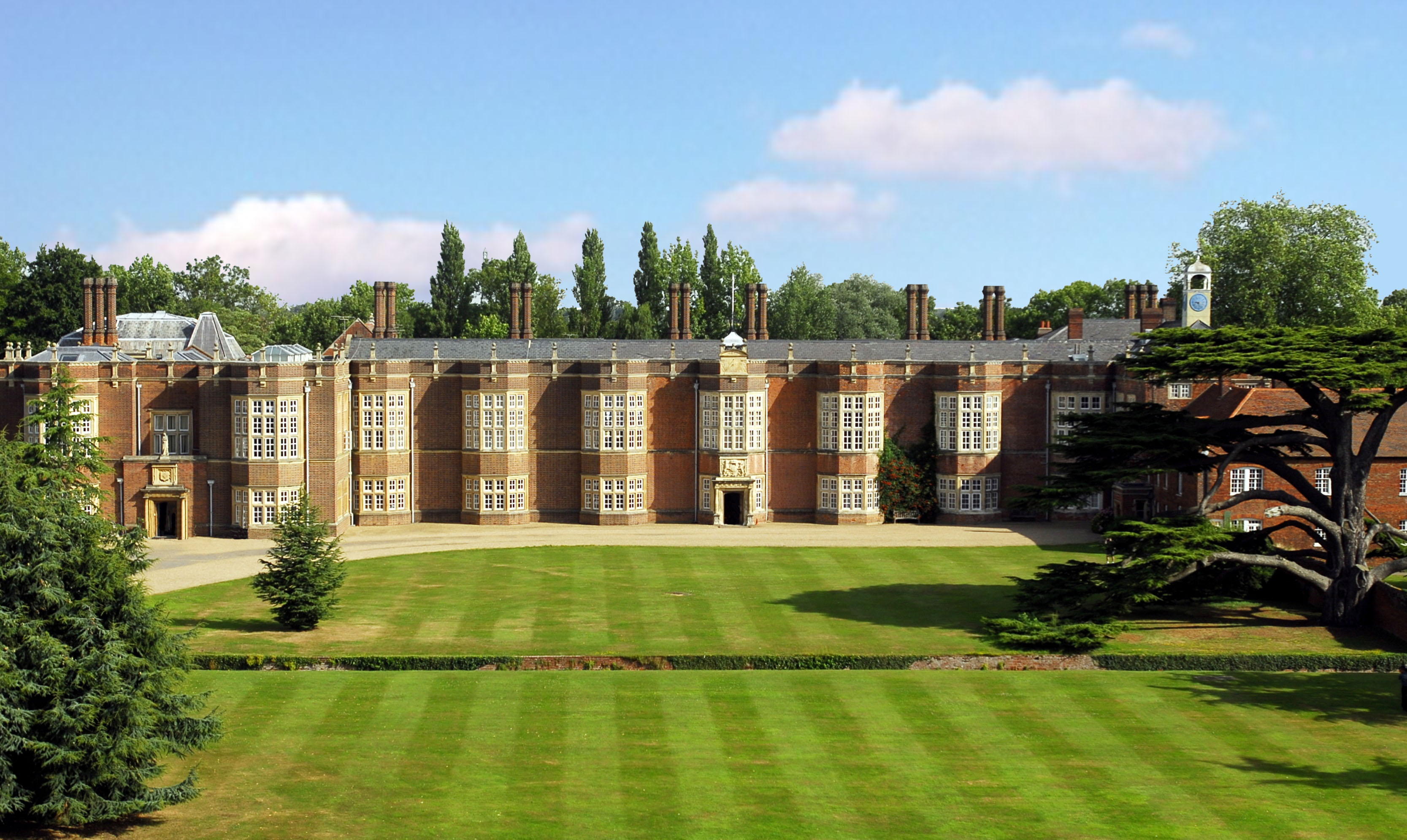 Chelmsford aerial views 08 Pictured: New Hall School